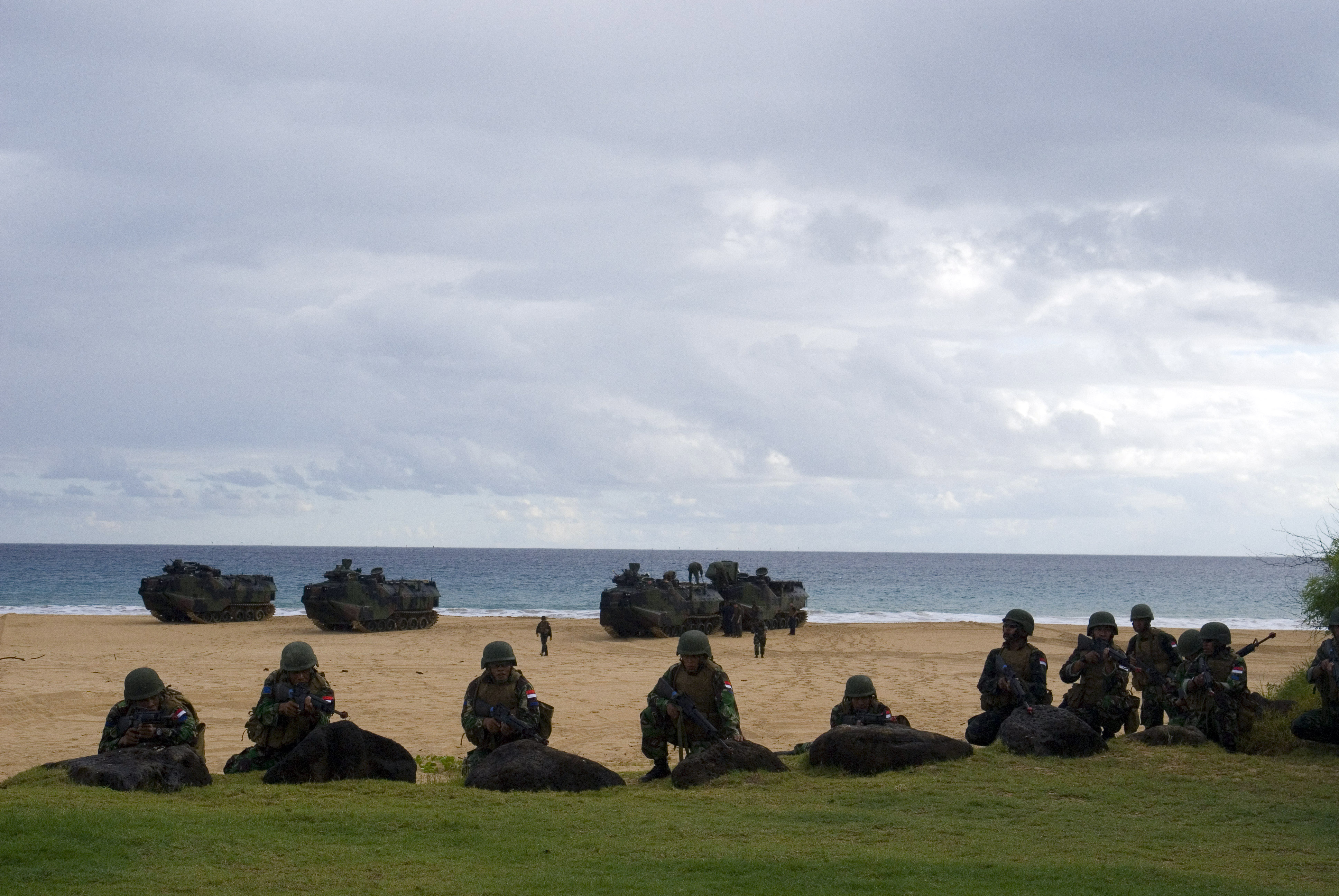 Indonesian Marines storm the beach during a beach assault exercise at Pacific Missile Range Facility Barking Sands, Hawaii as part of this year's Rim of the Pacific (RIMPAC) 2008 exercise. RIMPAC is the world's largest multinational exercise and is scheduled biennially by the U.S. Pacific Fleet. Participants include the United States, Australia, Canada, Chile, Japan, Netherlands, Peru, Republic of Korea, Singapore, and the United States.